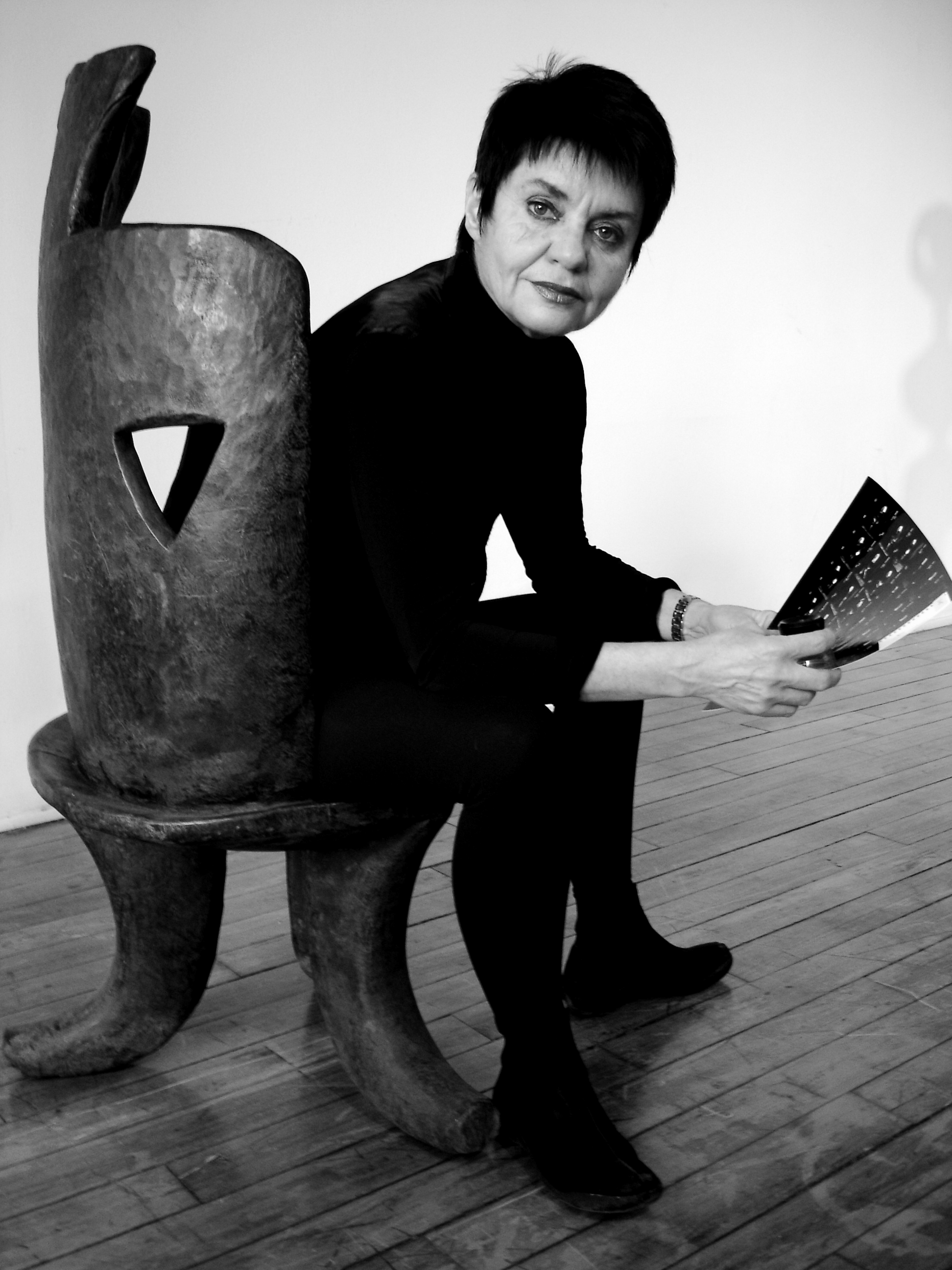 Portrait of Ariane Lopez-Huici